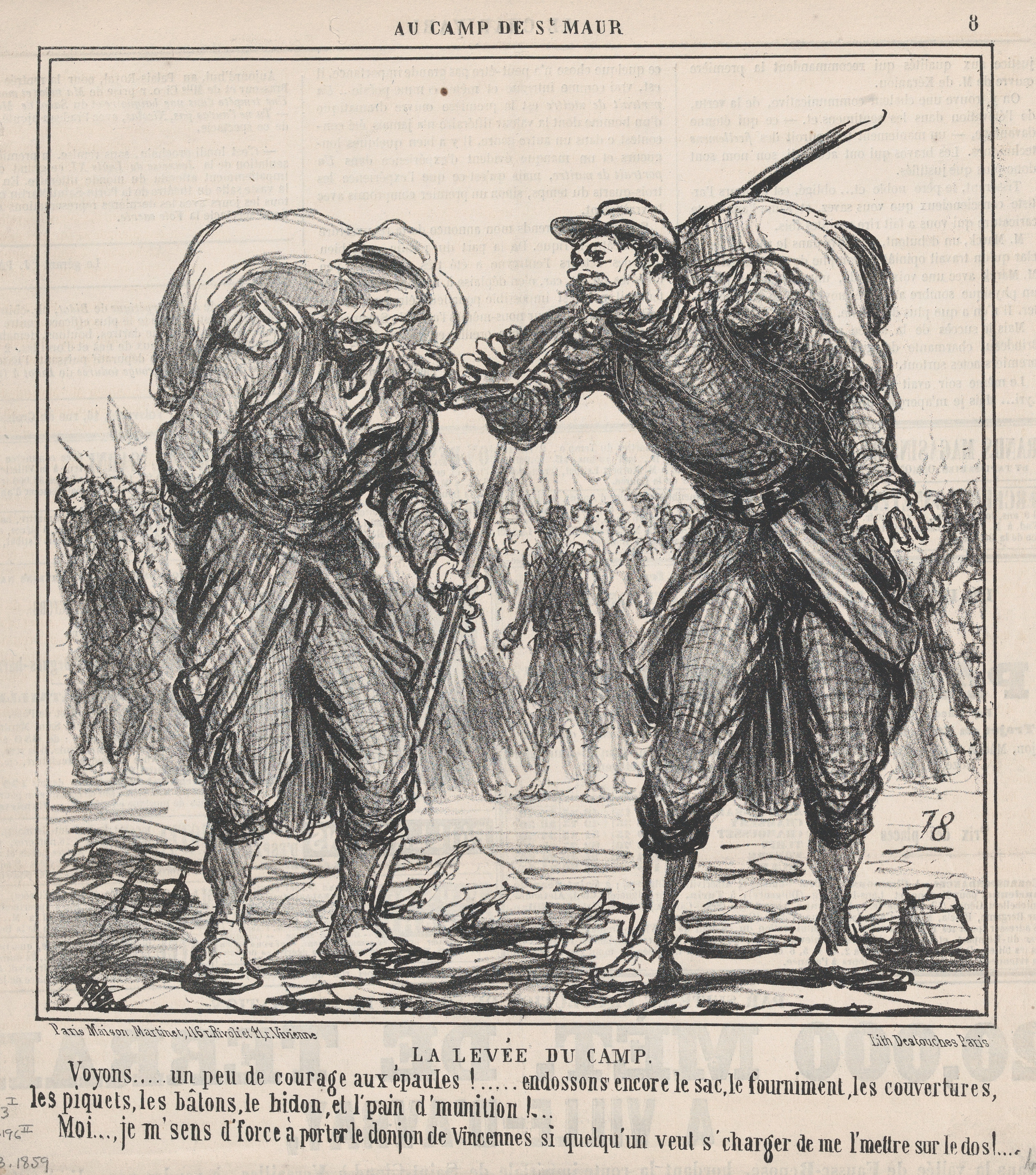 Print; Prints